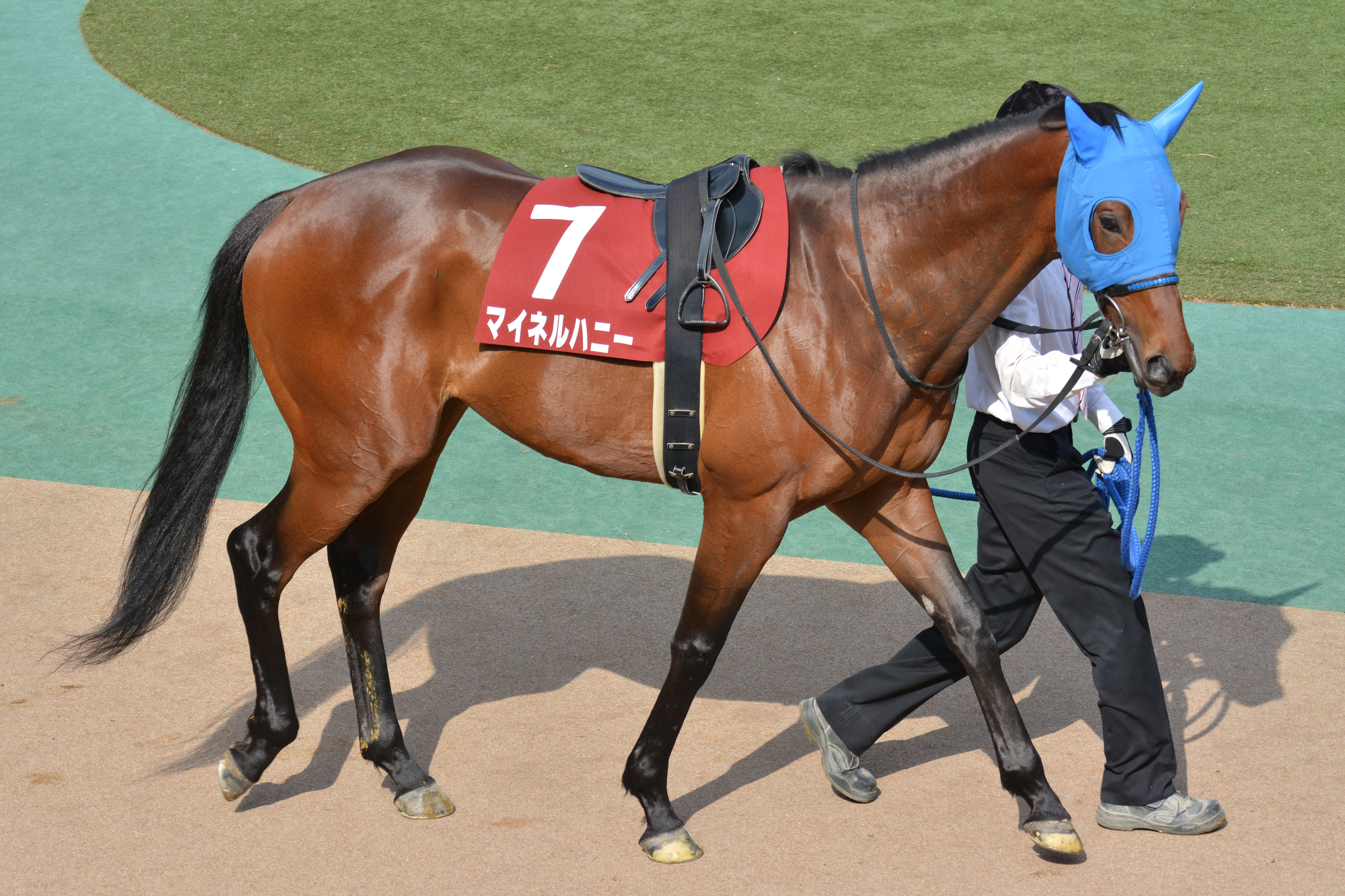 Japanese racehorse Meiner Honey at Tokyo racecourse(2016-04-30).